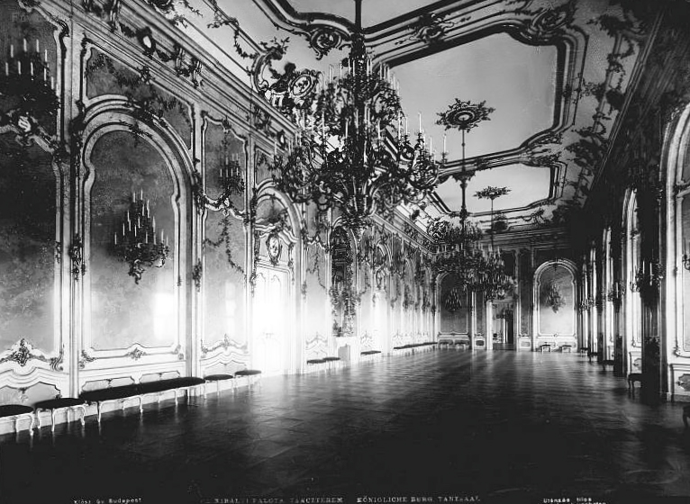 Buda Castle, ballroom.